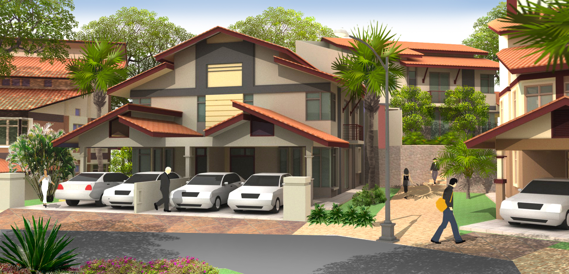 perspective of a sextuplex house in Nong Chik